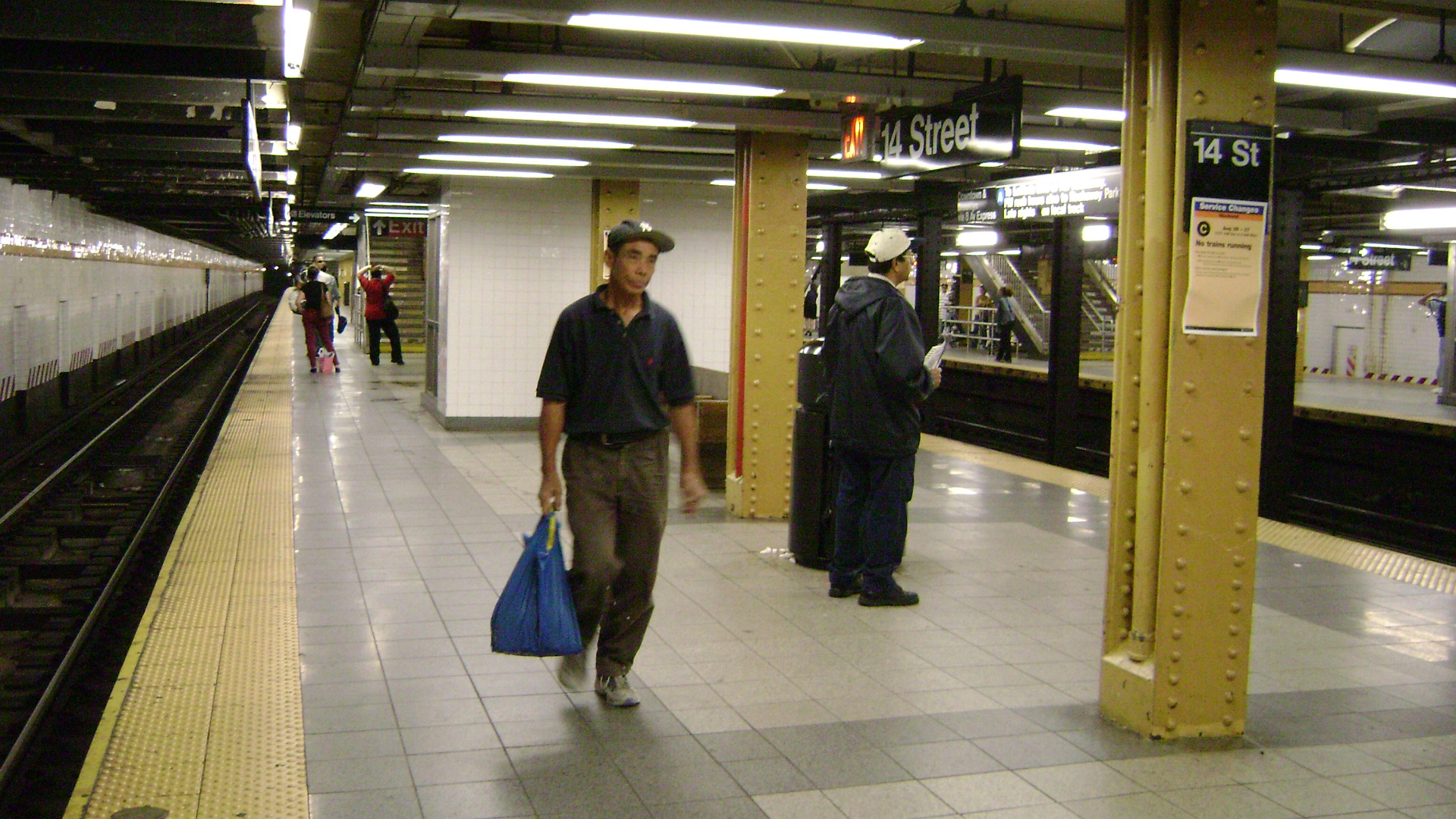 The 14th Street subway station.